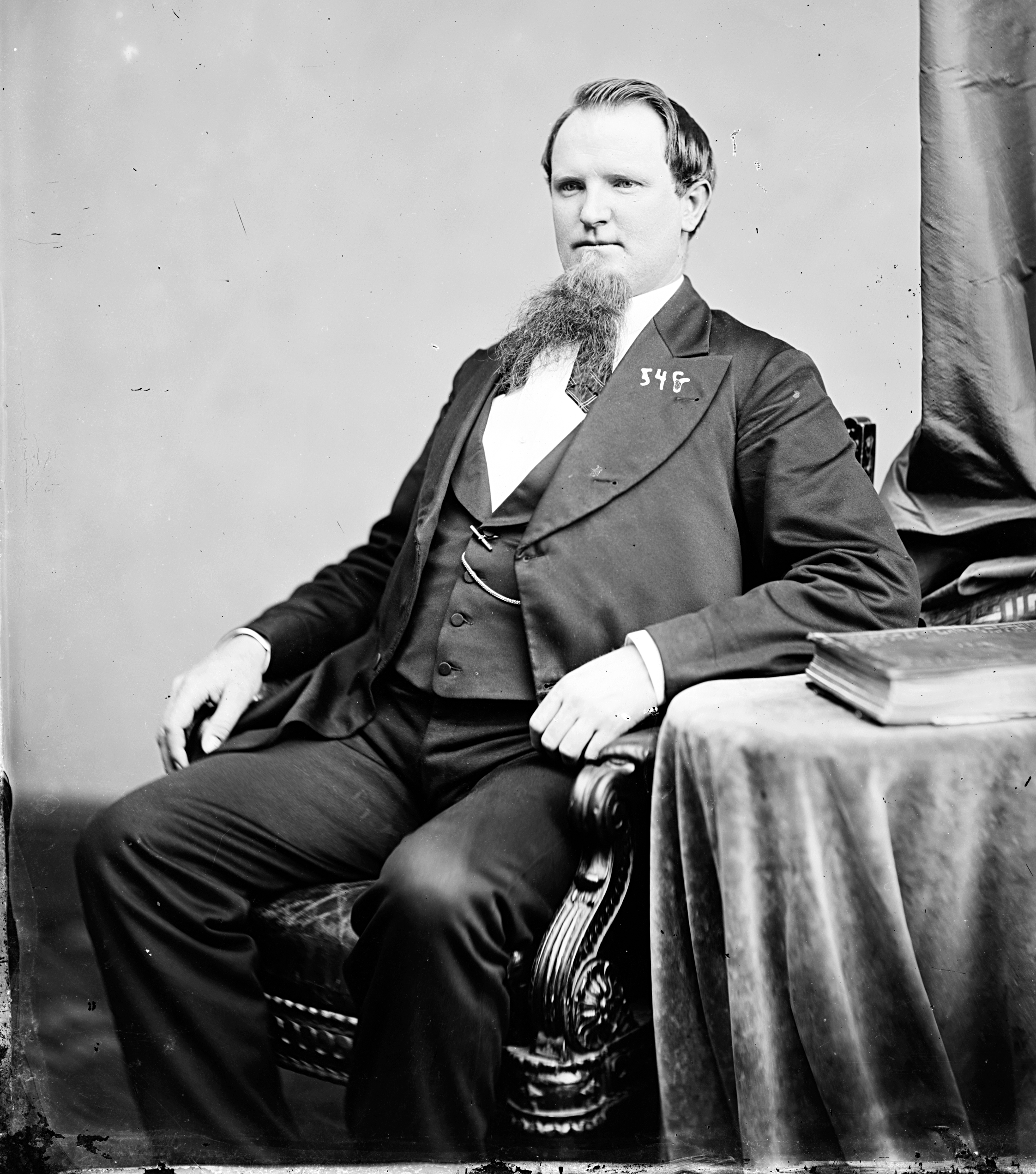 Joseph Benton Donley, US Representative from Pennsylvania